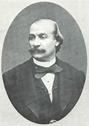 Pasquale Stanislao Mancini (1817-1888), prominent Italian lawyer, leading figure in the unification of Italy and Italian minister of foreign Affairs (1881-1885)